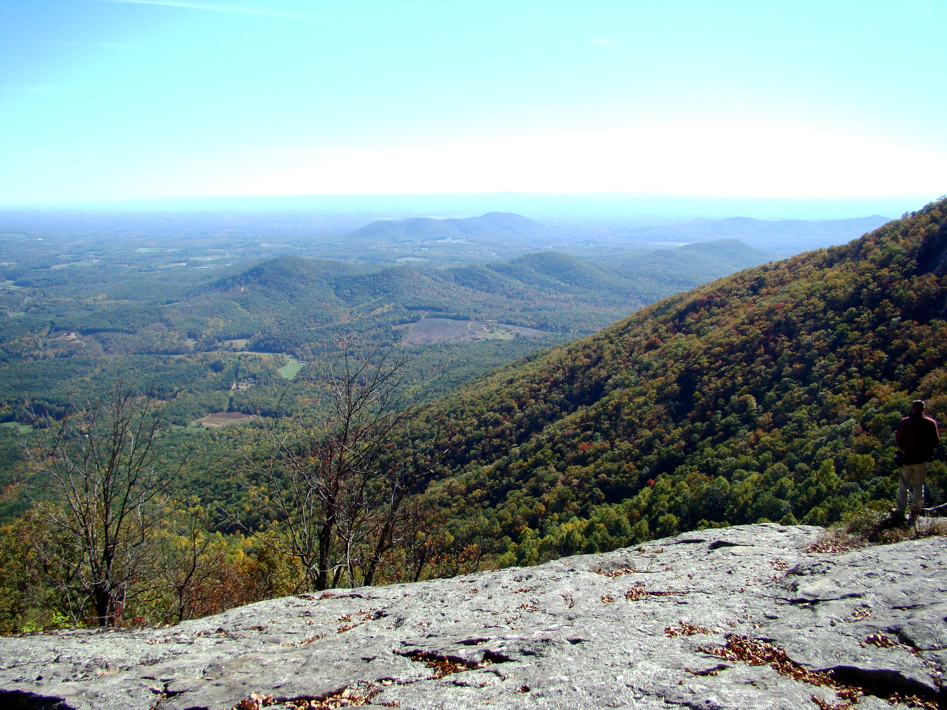 View from Fisher Peak, Surry County, North Carolina, USA looking Southwest toward Raccoon Mountain. Fisher Peak's coordinates are 36 33 34.47 N, 80 49 23.26 W.